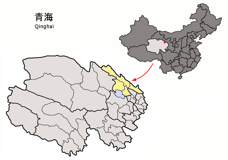 Location of Haibei Prefecture (yellow) within Qinghai province of China Map drawn in september 2007 using various sources, mainly : Qinghai province administrative regions GIS data: 1:1M, County level, 1990 Qinghai Counties map from "Plateau Perspectives" (the limits of some county-level subdivisions may not be accurate)